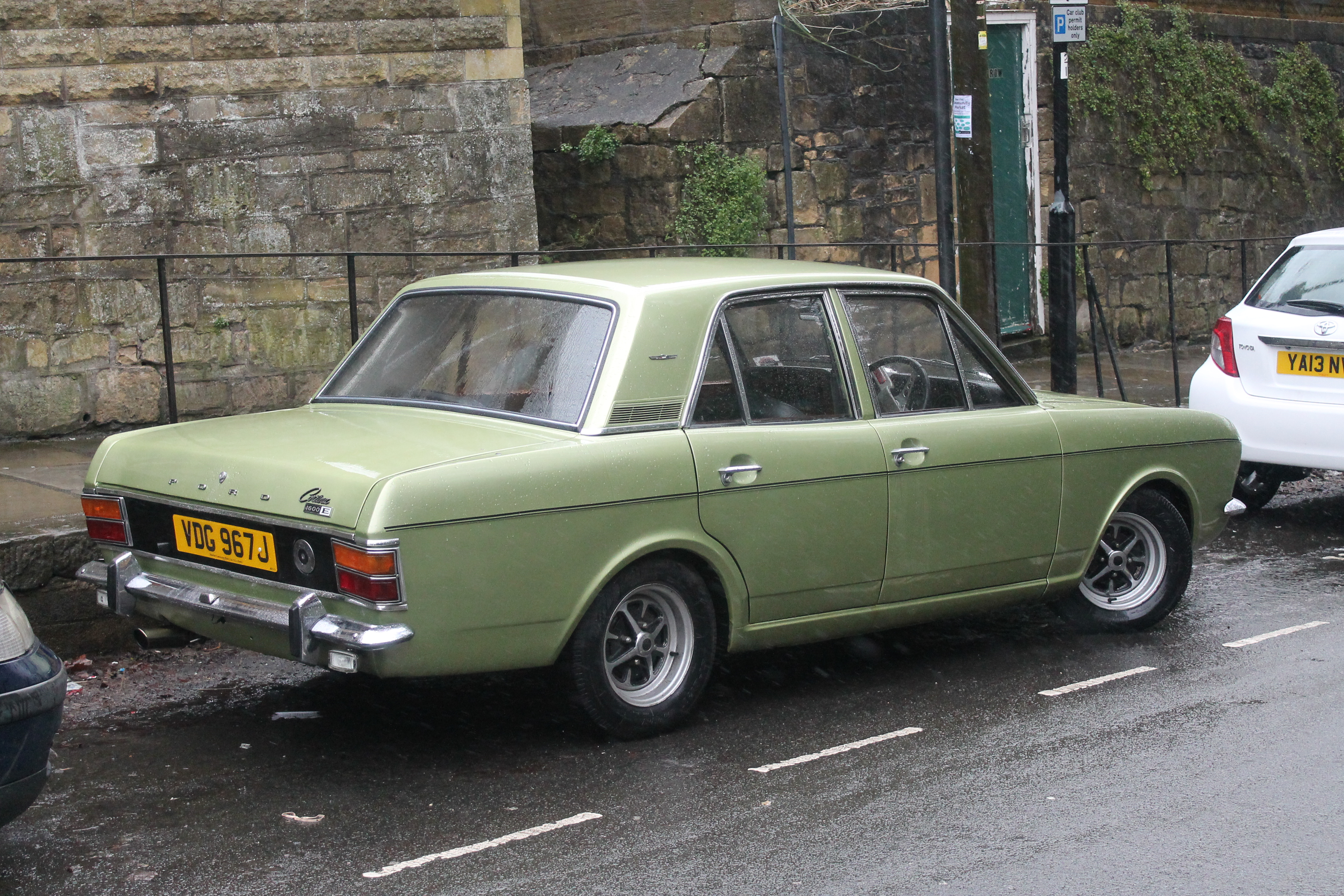 I love this one so much- Mk2 Cortinas are my favourite of all Cortina models. This one's quite a late one on a J reg, produced in 1970 which was the last year of production for the Mark II. I really like the colour of this one. The DVLA tells me the colour is purple- I must say I'm rather glad it seems to have undergone a respray. These are incredibly hard to see outside a show parked in the street, although you can expect to see at least one in most major car shows. In my opinion, the only thing letting this example down is the modern number plate. Oddly, the rear plate was yellow, also not original. Other than that, it was very original. The front fog lights and rostyles were standard on the high spec 1600E. it was absolutely pouring with rain, and we had 60mph gusts when I took this photo, but I wasn't going to pass by this without a photo, whatever the weather! The vehicle details for VDG 967J are: Date of Liability 01 08 2014 Date of First Registration 13 11 1970 Year of Manufacture 1970 Cylinder Capacity (cc) 1600cc CO₂ Emissions Not Available Fuel Type PETROL Export Marker N Vehicle Status Licence Not Due Vehicle Colour PURPLE Vehicle Type Approval Not Available